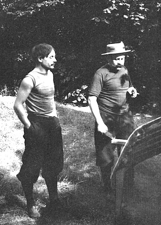 Alferd Jarry [left] and Alfred Vallette [right], in the garden of the villa Phalanstère in Corbeil [painting L'As ?].